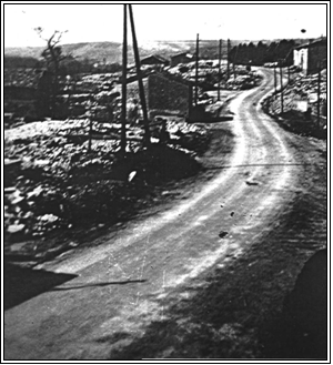 Martincourt sur Meuse's ruins after the battle in may 1940.